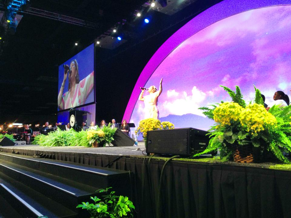 Sandy Patty en apertura de Asamblea General